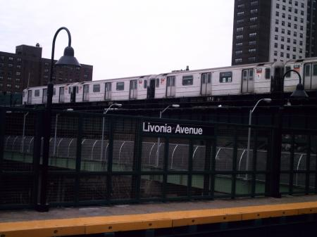 Looking up and northwest from Livonia Avenue (BMT Canarsie Line) station at the IRT New Lots Line